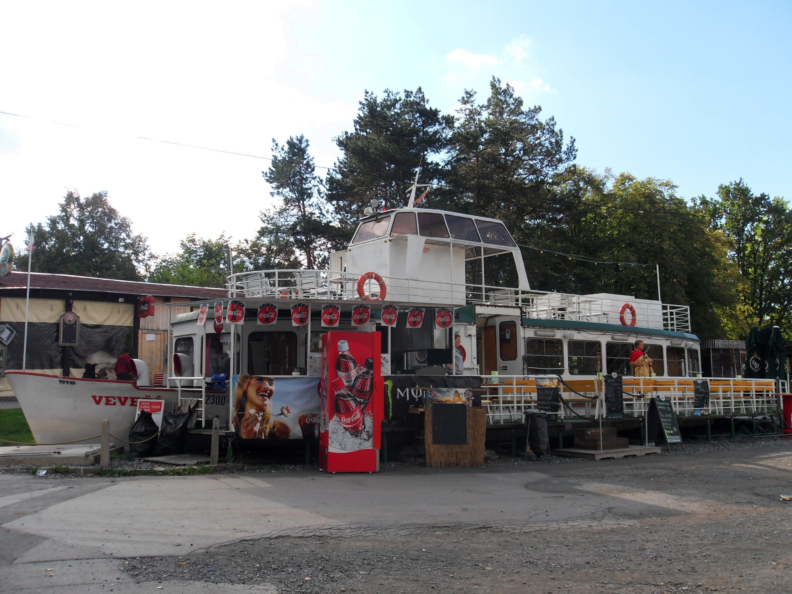 Veveří ship, now fast food restaurant, Bystrc, Brno, Czech Republic - Google Maps - Google Earth